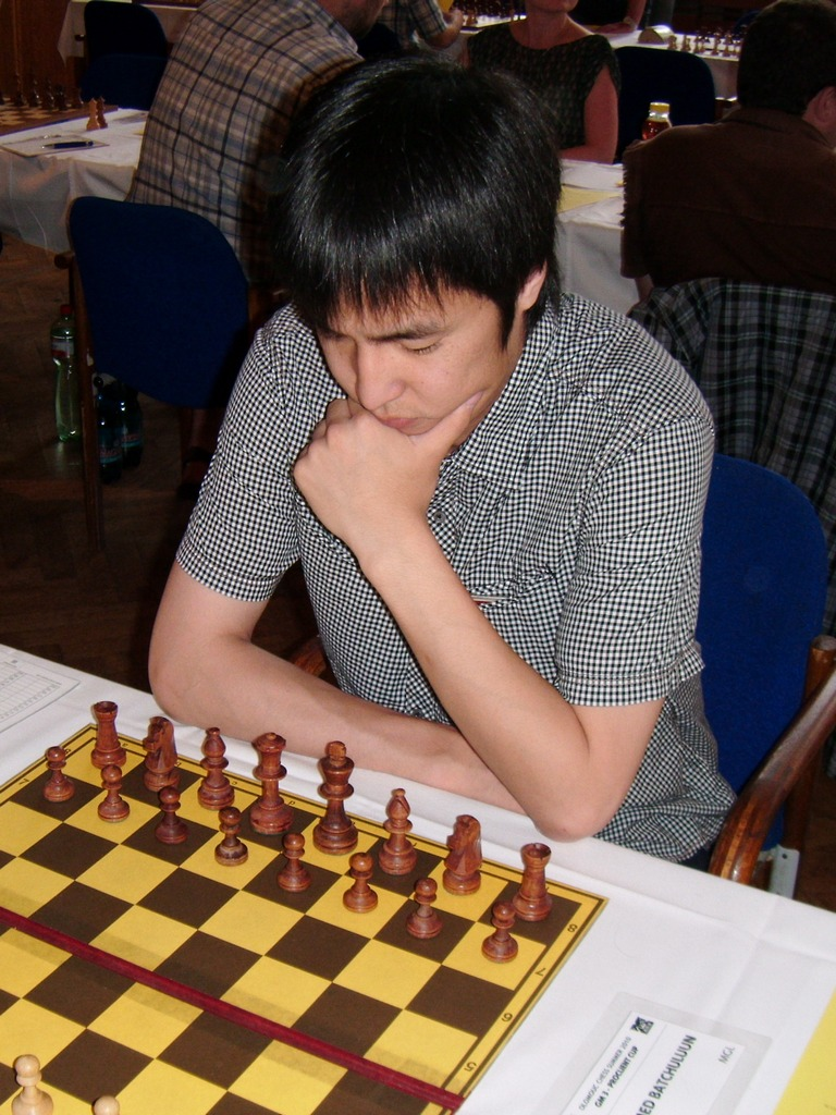 Tsegmed Batchuluun playing in the Olomouc Chess Summer 2010 in Olomouc (Czech Republic)